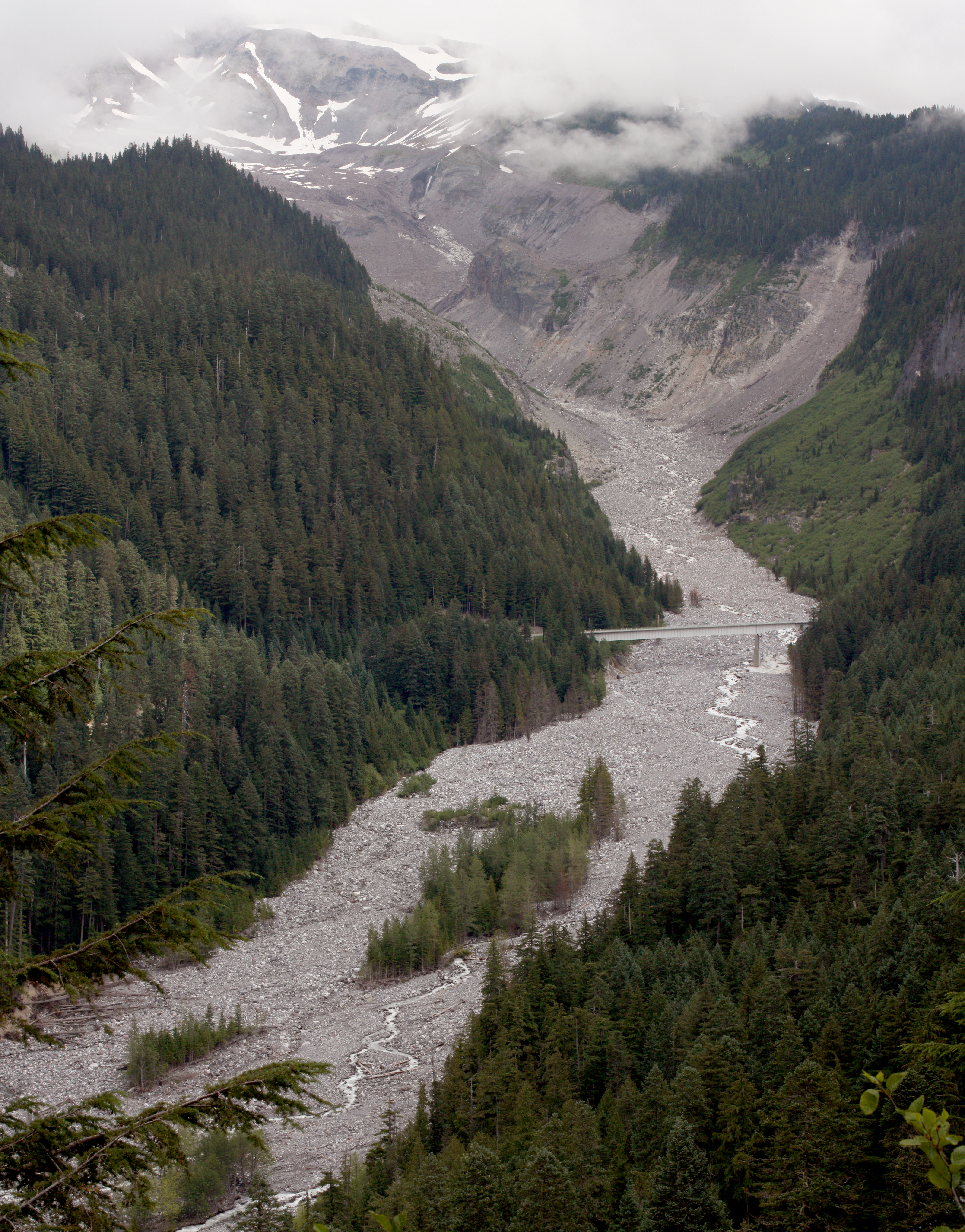 Nisqually River; Washington State Route 706 bridge (right center) This image was created with Hugin.